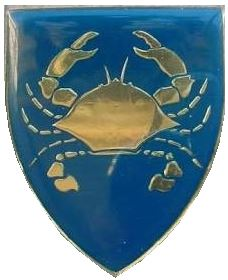 SADF era Kynsna Commando emblem